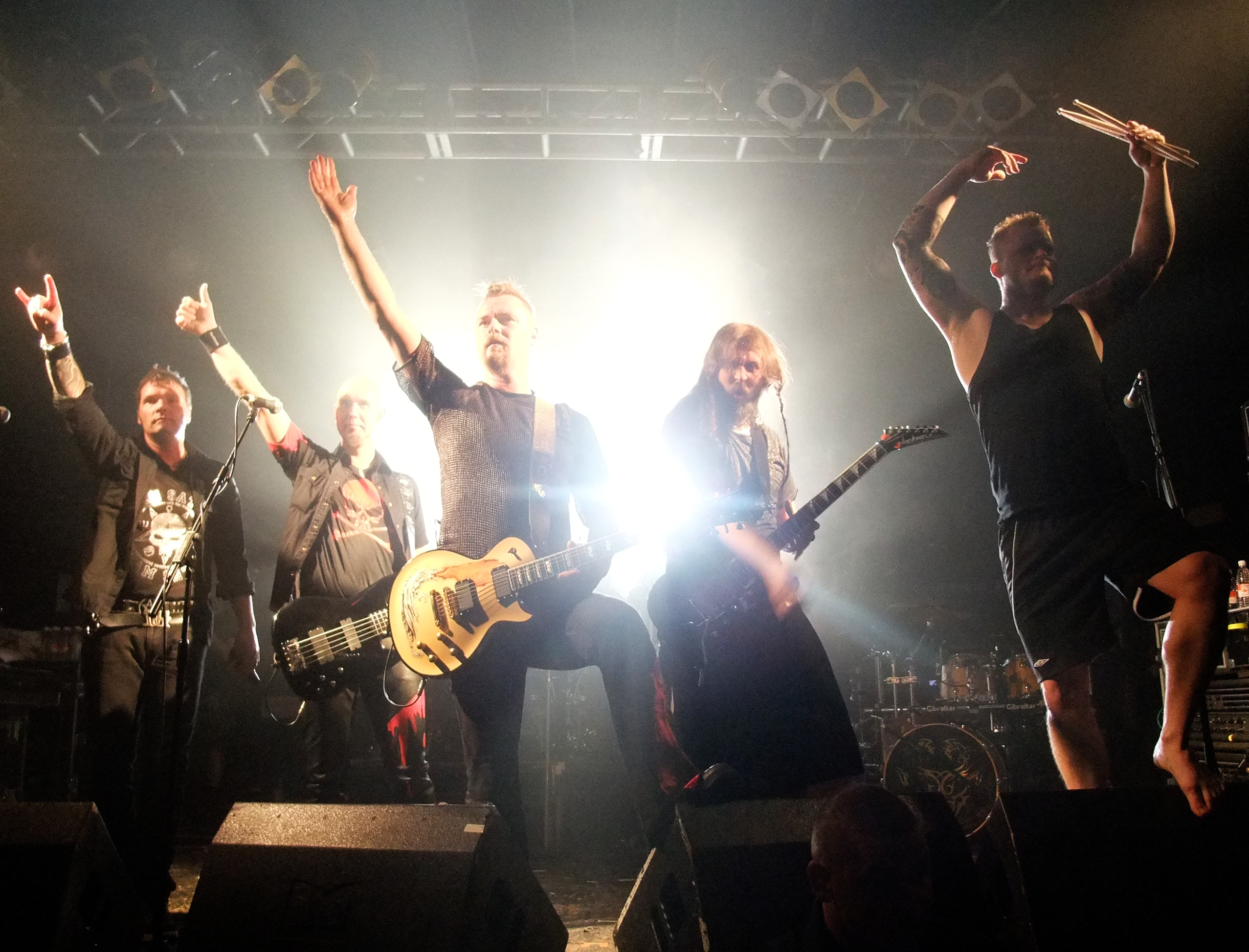 Dream Evil at The Electric Ballroom in London, 6th May 2010